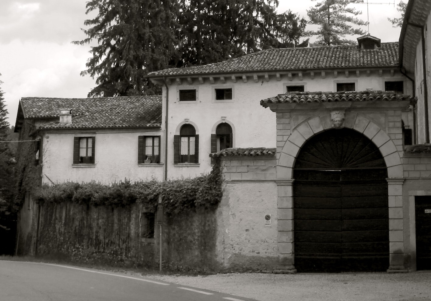 Campea: Villa Bellati